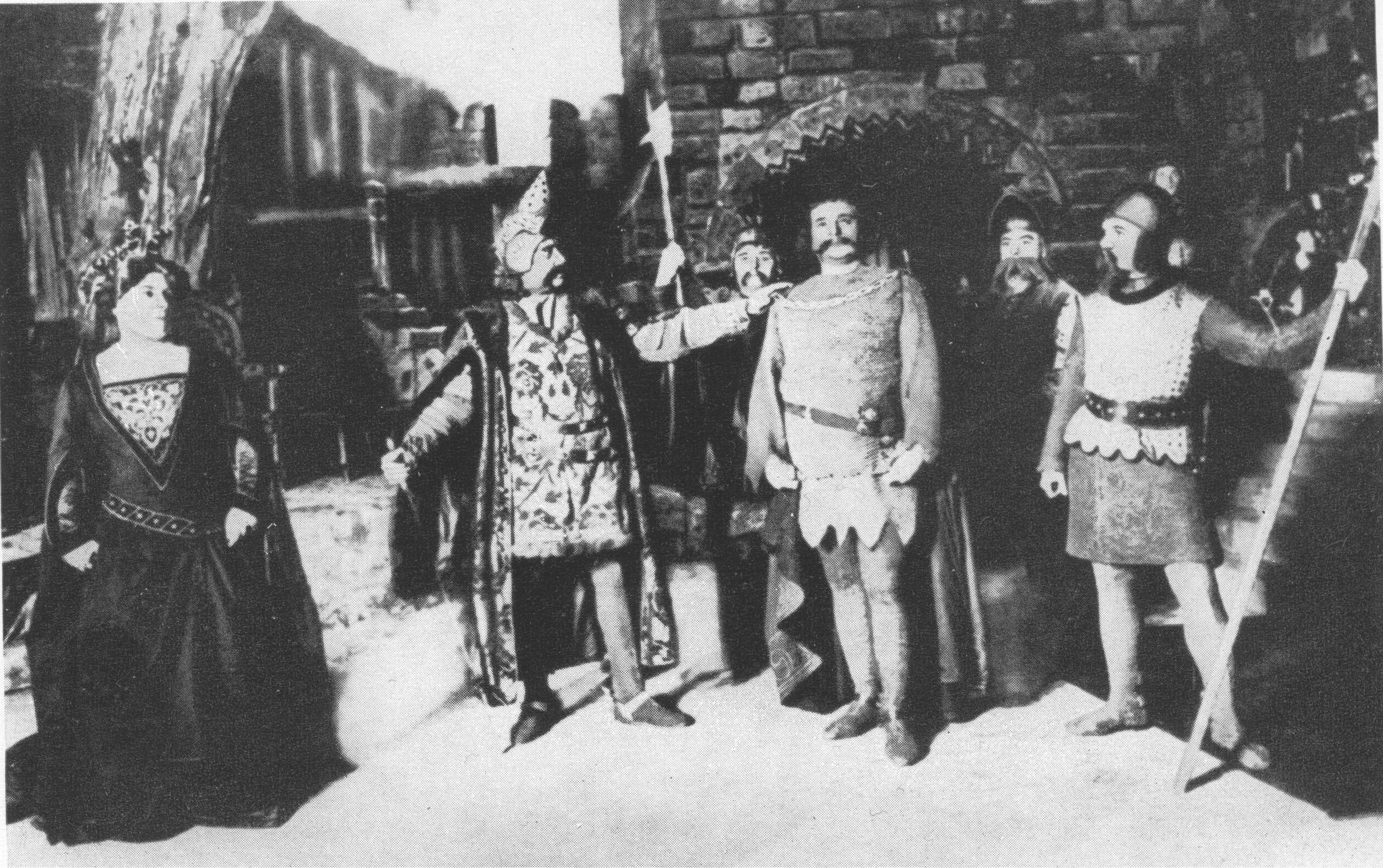 Shot from a production of Smetana's Dalibor in Berliner Hofoper 1909. Dalibor - Ernst Kraus, Milada - Emmy Destinn